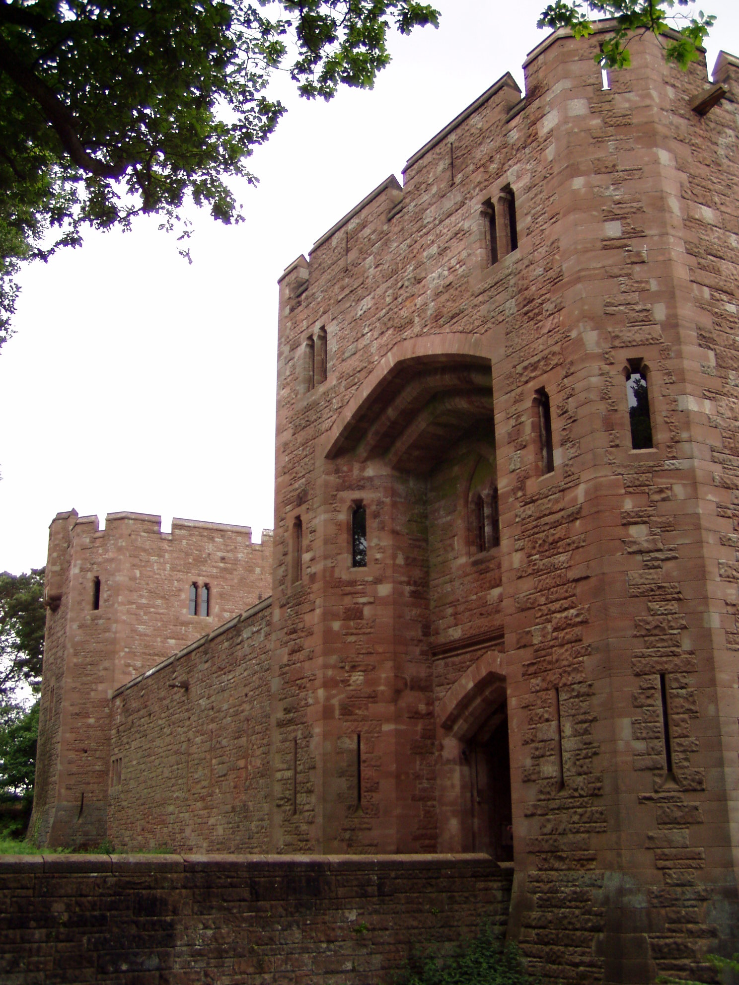 View of the front gate of Peckforton Castle in Cheshire, England. Photo by Clint Heacock